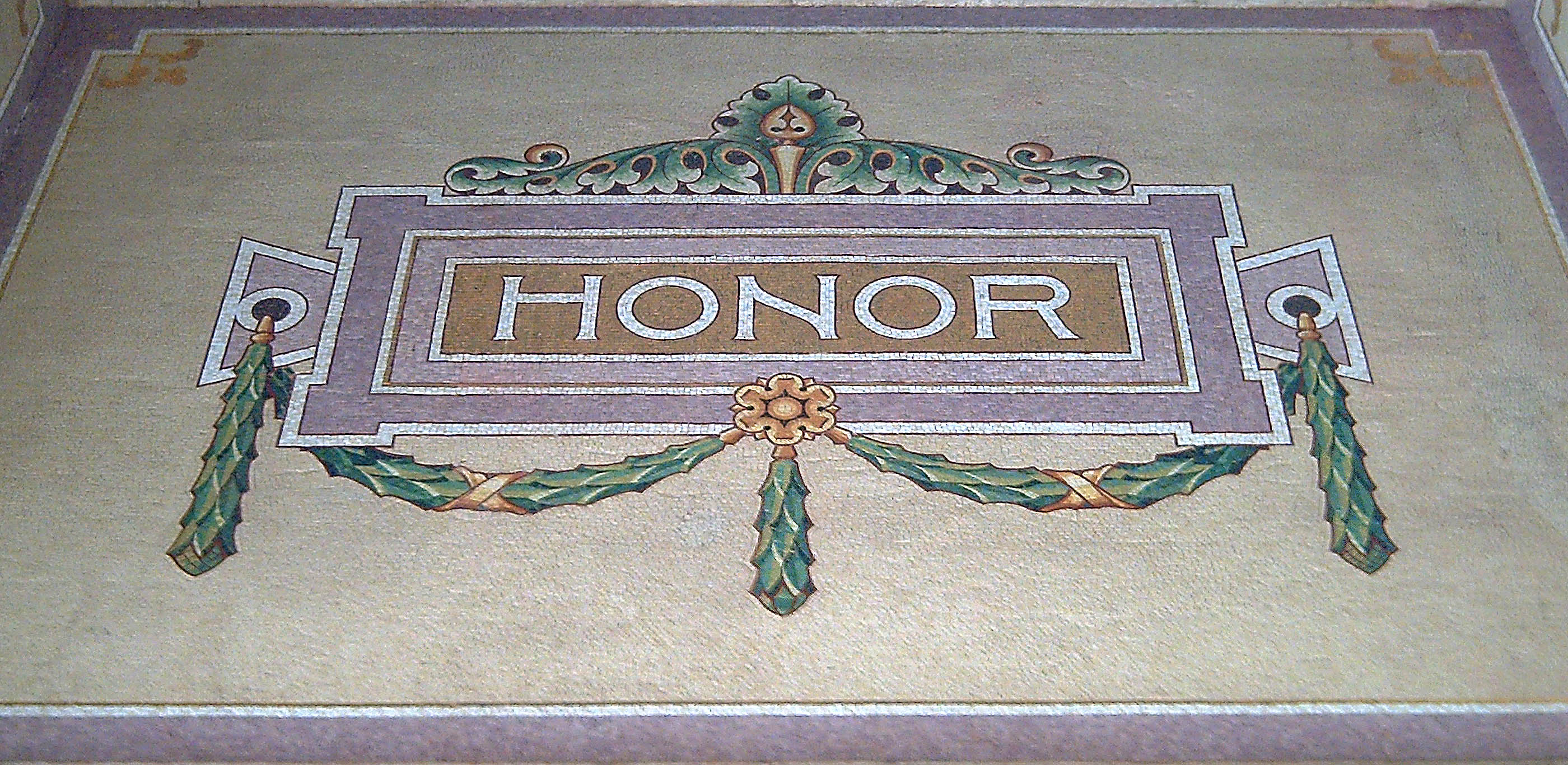 Honour. Mosaic made between 1913 and 1914 by Mauméjean craft firm. Detail of the entrance hall of the Pantheon of Illustrious Men in Madrid (Spain), a Neo-Byzantine style building projected by architect Fernando Arbós Tremanti (1840-1926) and built between 1891 and 1901.